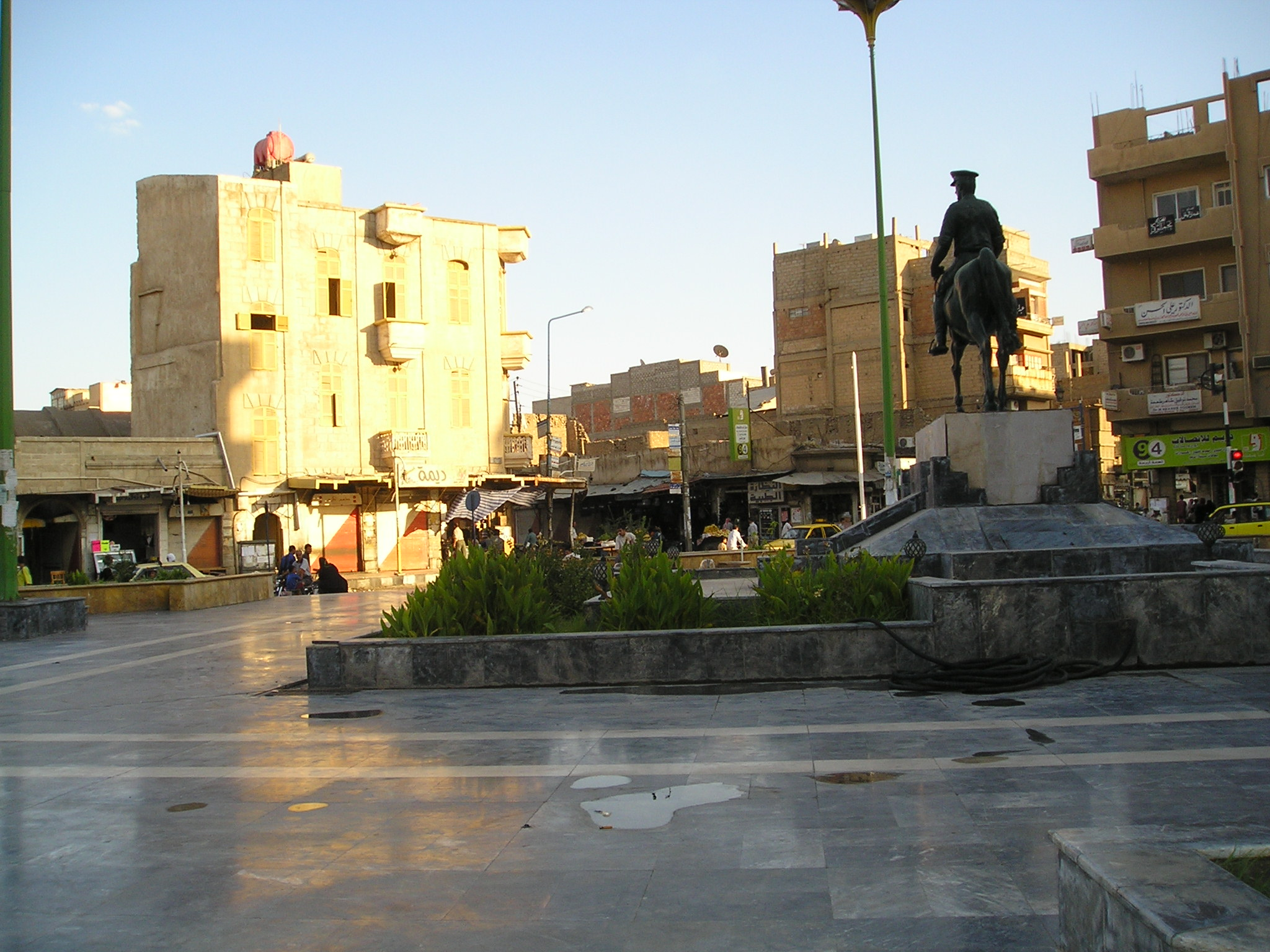 Deir ez-Zor, Syria - March 8 Square (Sahaat Azar 8)